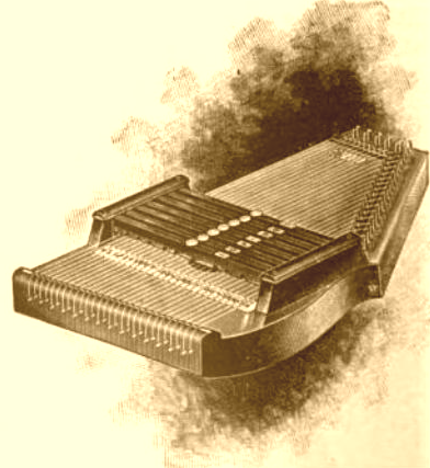 A 19th Century illustration of a 7-chord Autoharp.